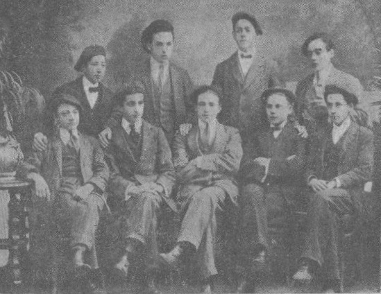 Junta del Requete de Barcelona. First row, right to left: Valentín Centellas (treasurer), Fernando Bertrán (vicepresident), Martín Gibernau (president), Miguel Torroella (secretary) and Pablo Mir (member). Second row, right to left: Carlos Picart (deputy treasurer), Juan Sales (standard-bearer), Carlos Vilarnau (librarian) and Francisco Lladó (member)